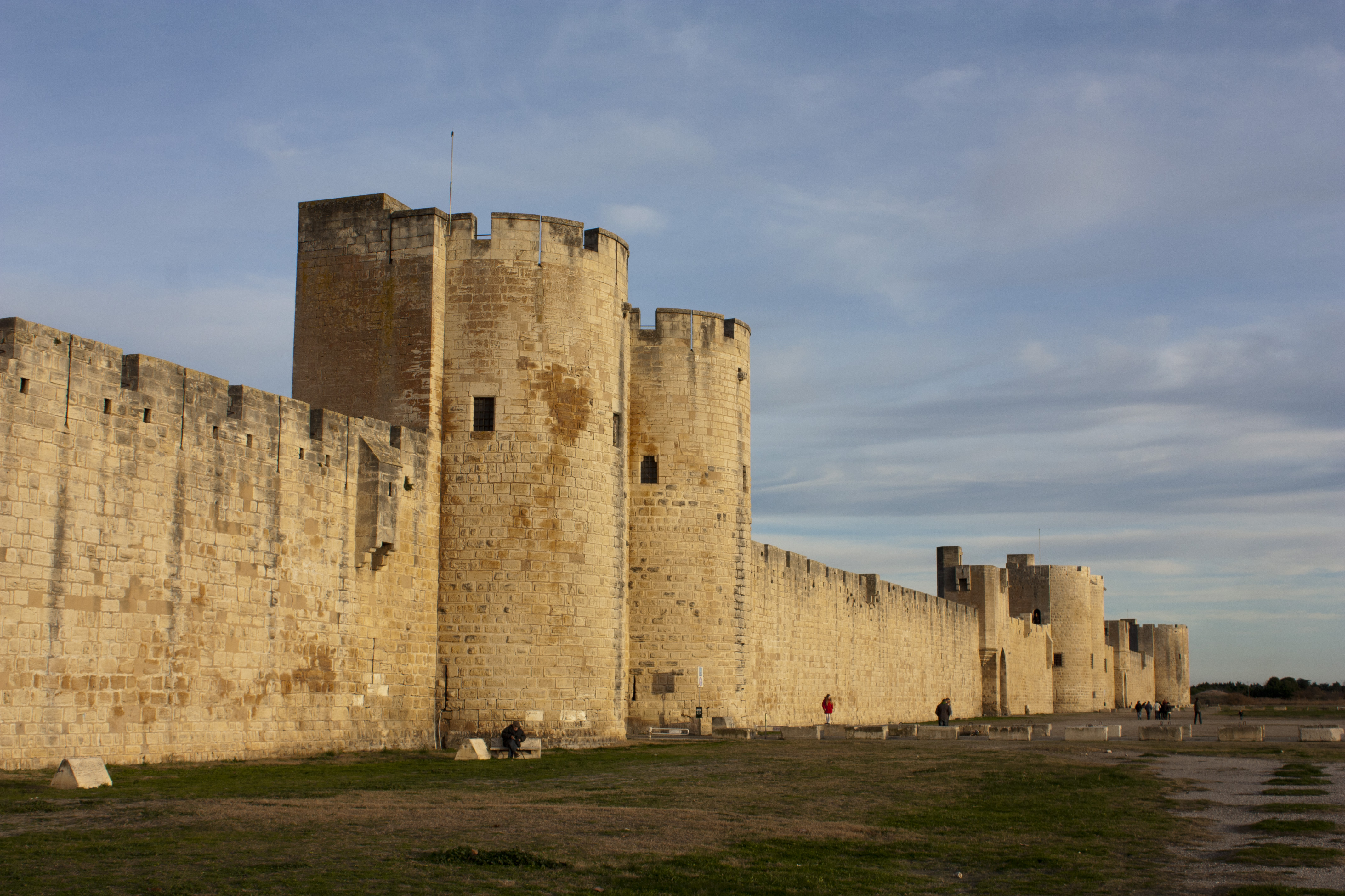 South wall seen from the west: Tower of Mills, Tower of Galeys, Tower of the Navy, Towerof The Arsenal, Tower of Powder Magazine.